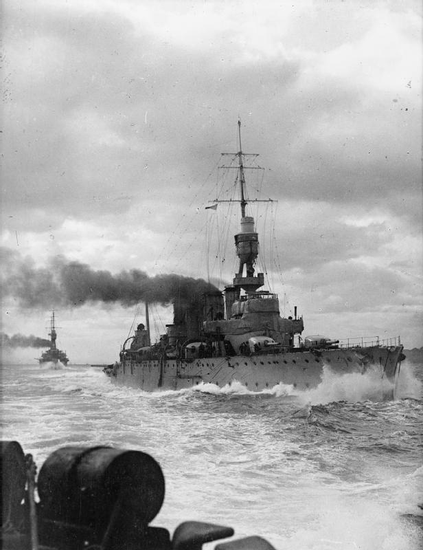 IWM caption : Birmingham Class light cruiser underway at sea, 1917. Probably HMS BIRMINGHAM but could be HMS LOWESTOFT. FURTHER INFORMATION: This is not HMS DUBLIN as previously believed - the Chatham class cruisers only had a single 6 inch Mark XII gun on the forecastle.